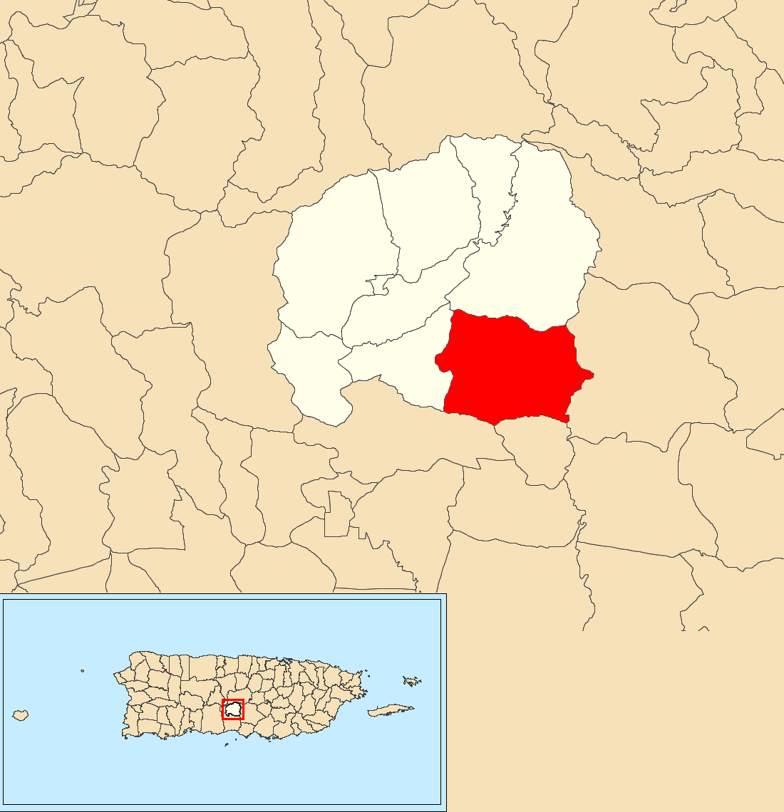 Caonillas Abajo, Villalba, Puerto Rico locator map